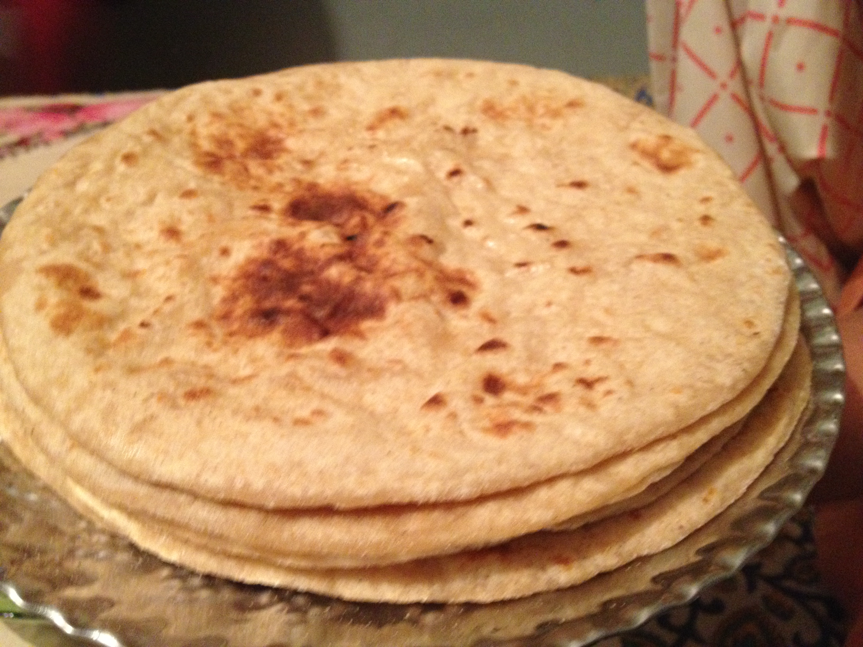 Roti Style Paratha